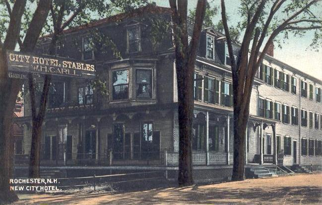 The City Hotel, Rochester, New Hampshire.